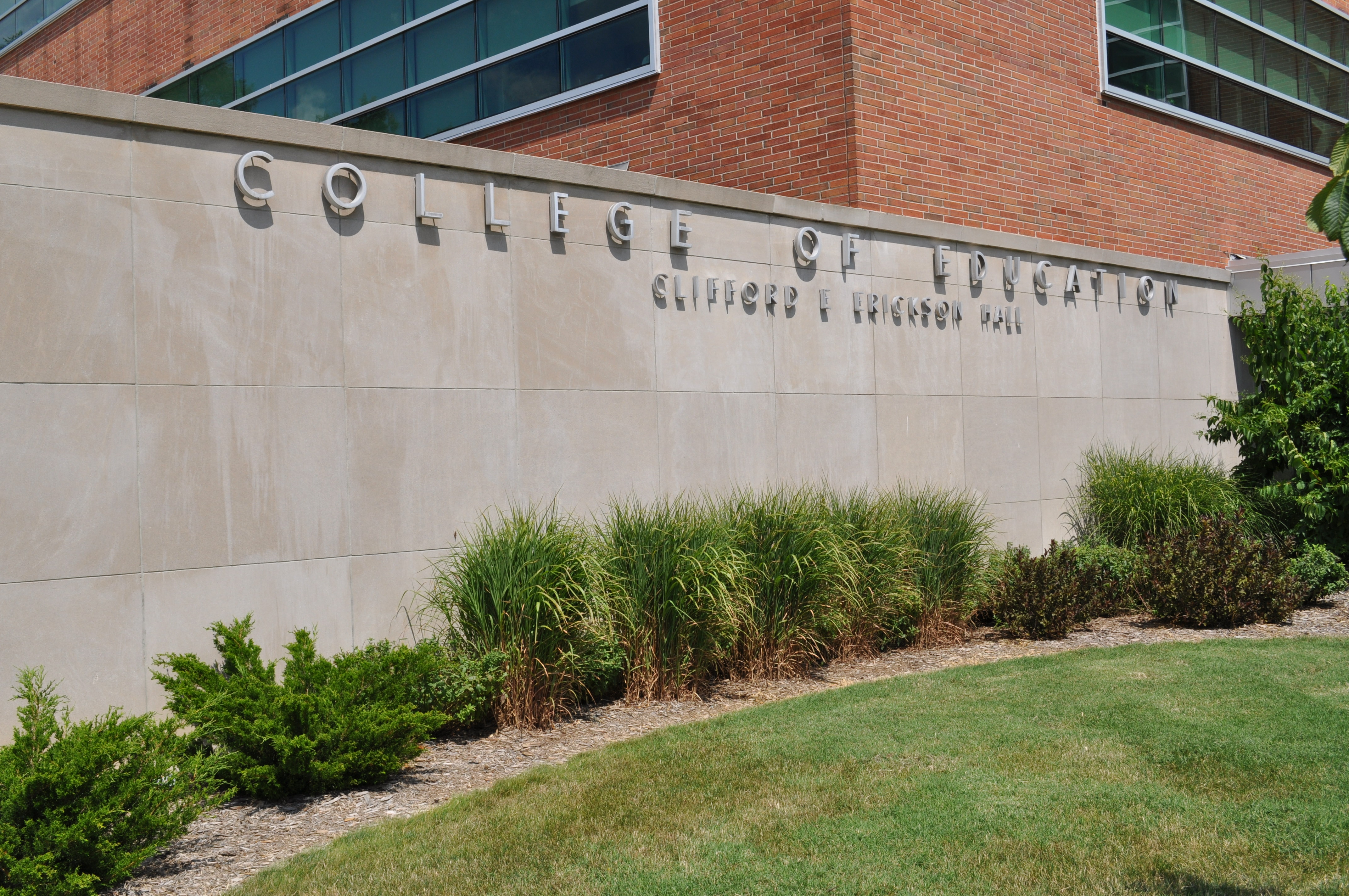 This is a picture of Erickson Hall, home to Michigan State's College of Education.